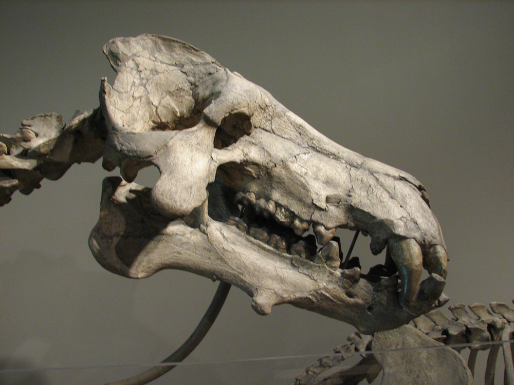 The skull of Daeodon at the Carnegie Museum of Natural History